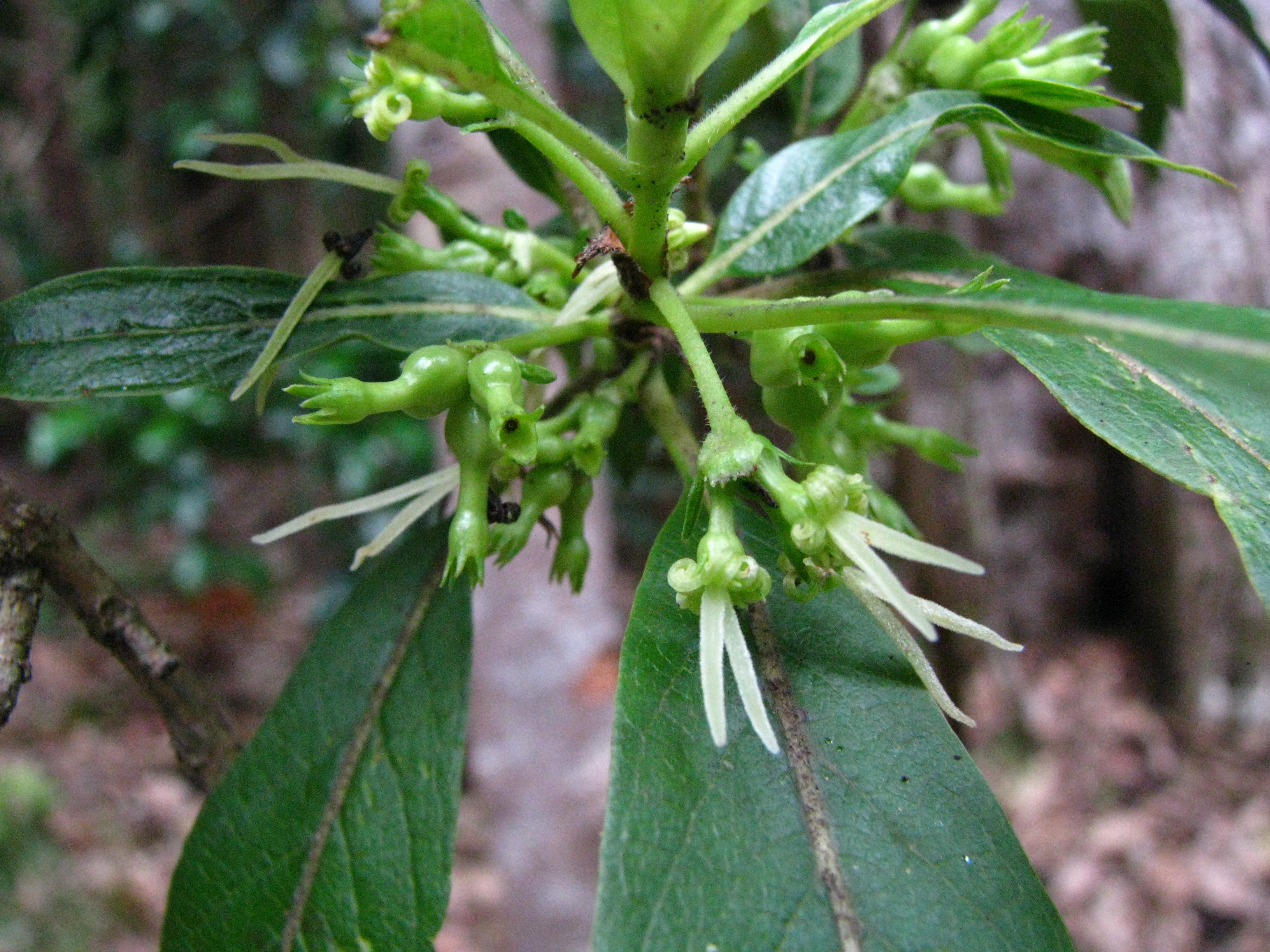 Pilo or Woodland mirrorplant Rubiaceae Endemic to the Hawaiian Islands (Hawaiʻi Island only) Kīpukapuala, Hawaiʻi Island Pistillate (female) flowers and unripe fruit